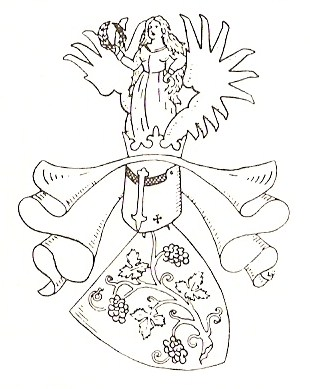 Coat of arms of the german family „von Blumenthal“